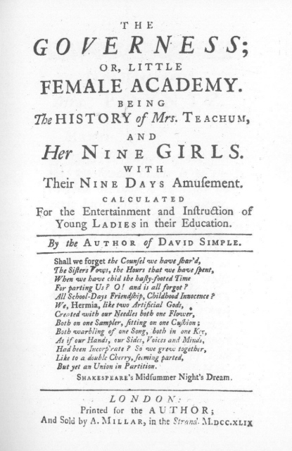 Title page from "The Governess" (1749 edition), by Sarah Fielding (1710-1768). The author died over 100 years ago.